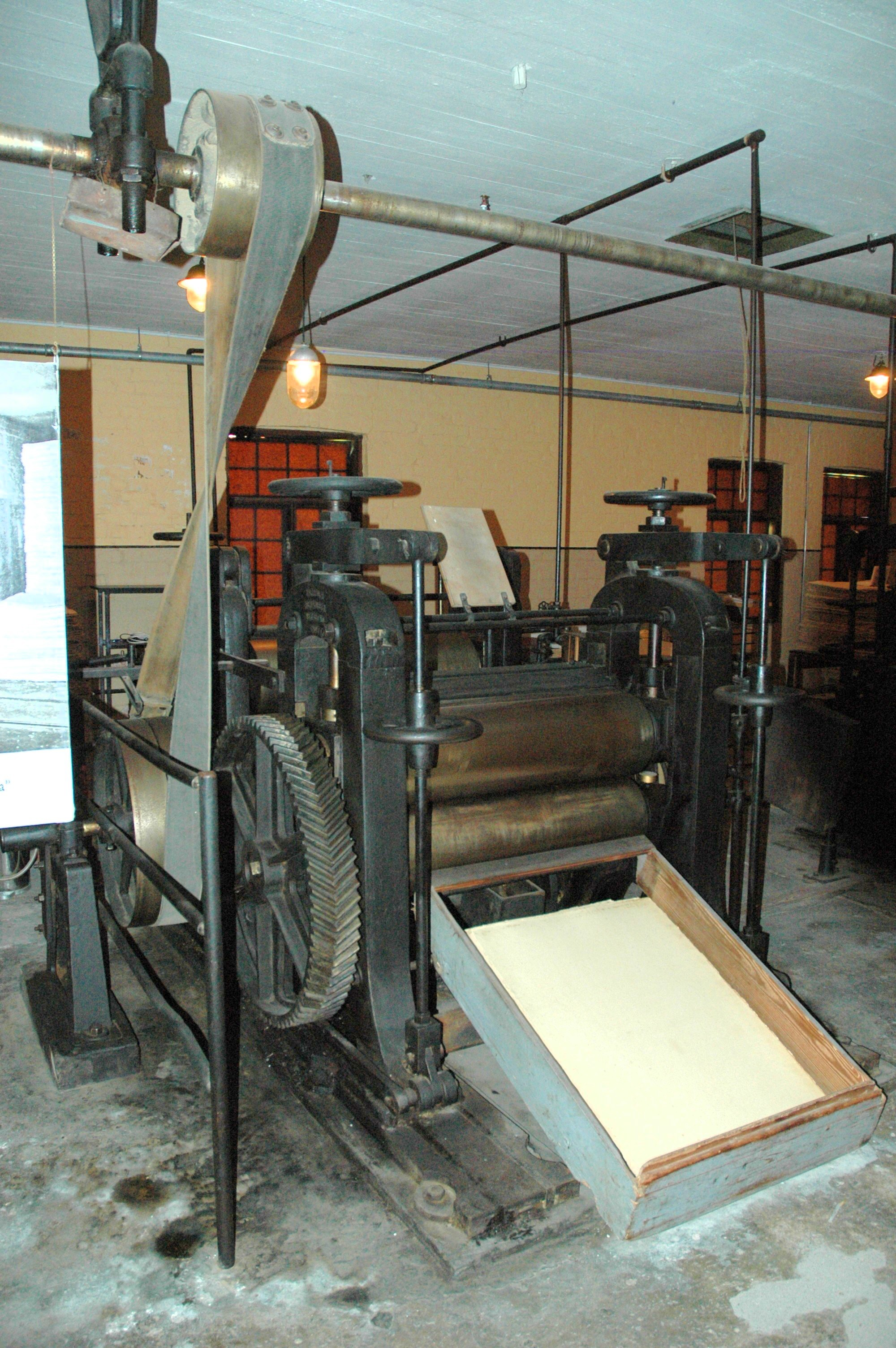 Calender at the historical Verla groundwood and board mill (Finland)